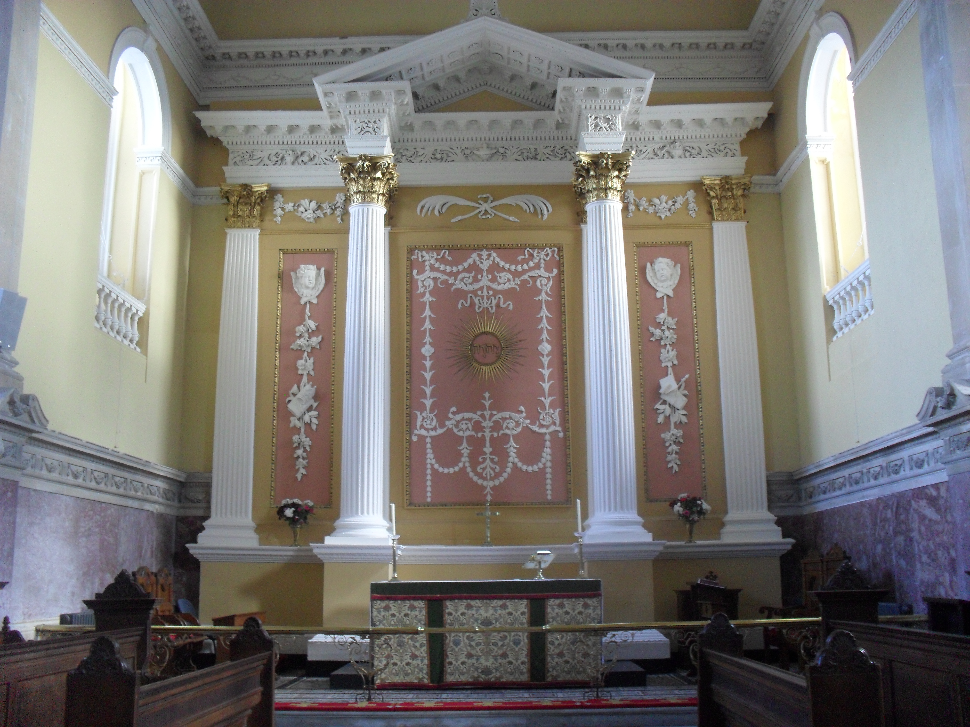 Church high altar